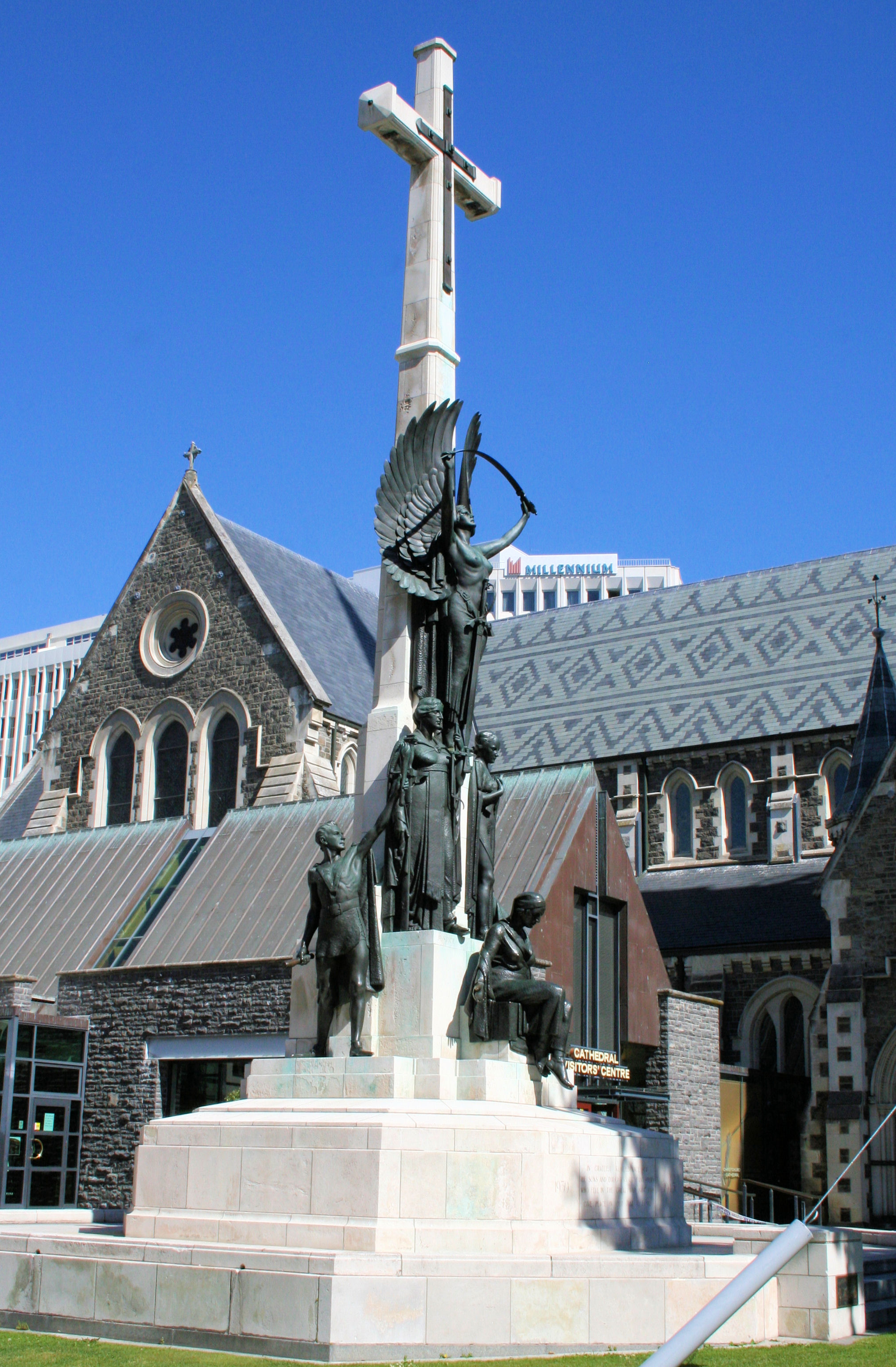 Christchurch Cathedral with the Citizens' War Memorial photographed Christmas 2010.